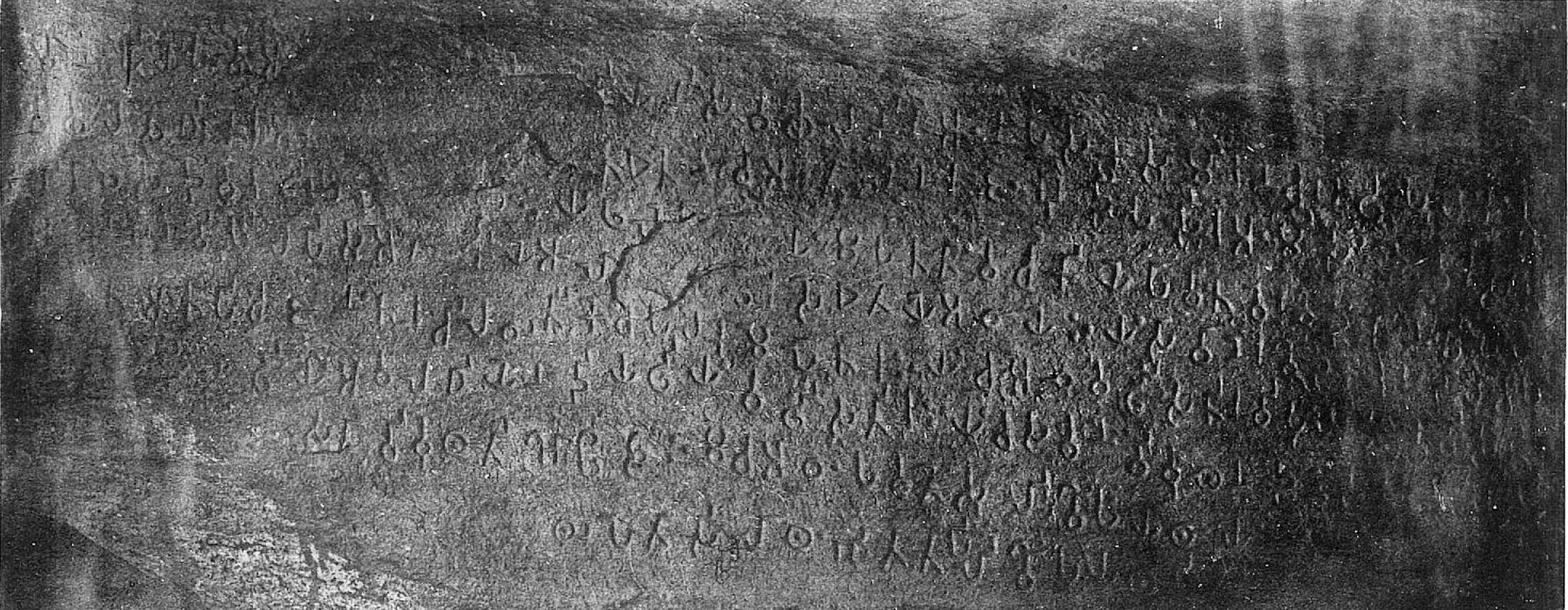 Sahasram Edict of Ashoka